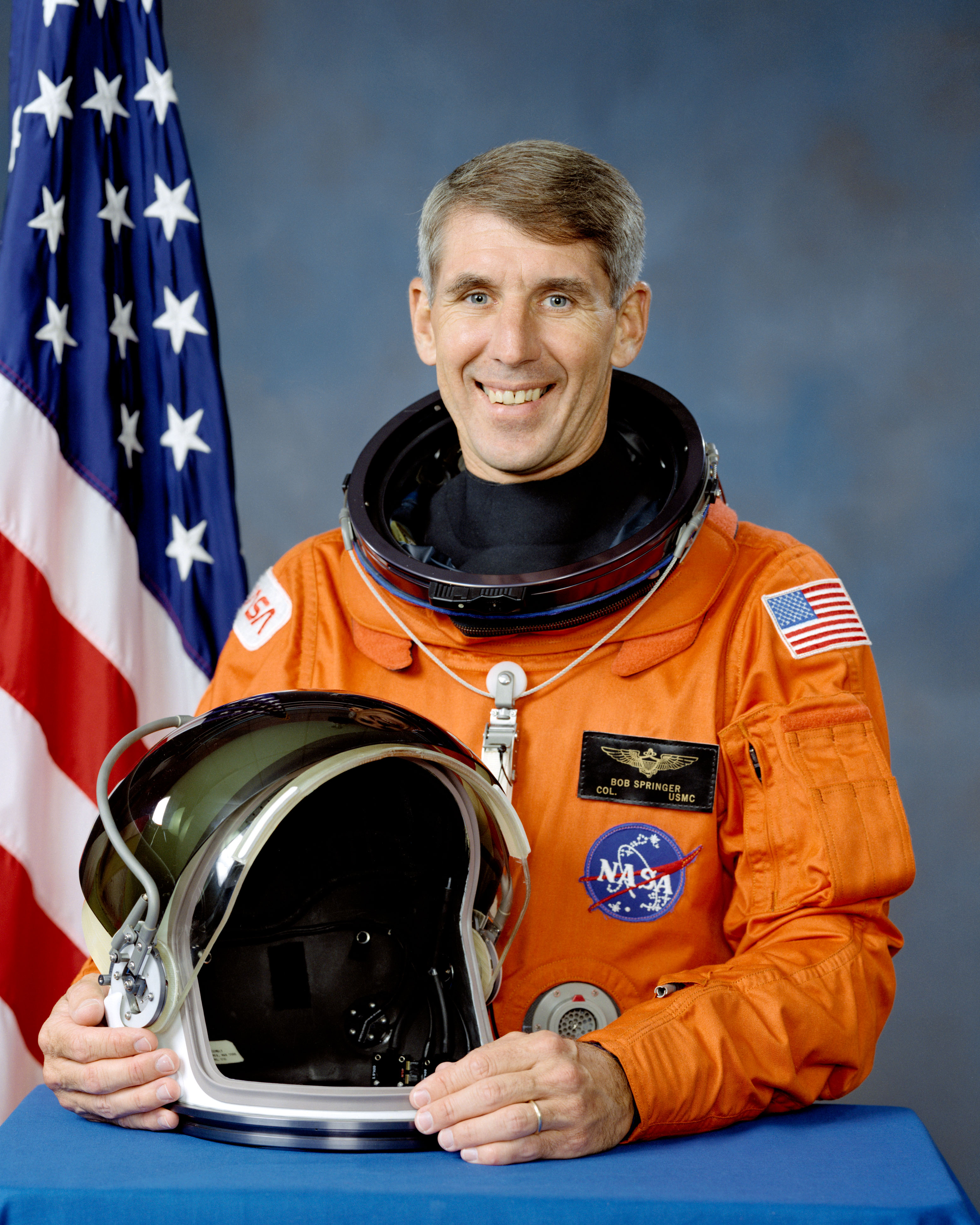 portrait astronaut Robert Springer